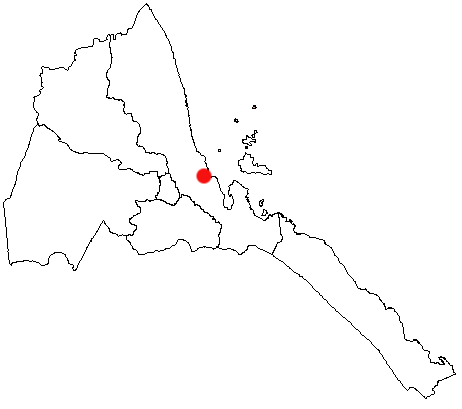 Massawa, Eritrea Location Map; created with the GIMP. Made by Acntx.